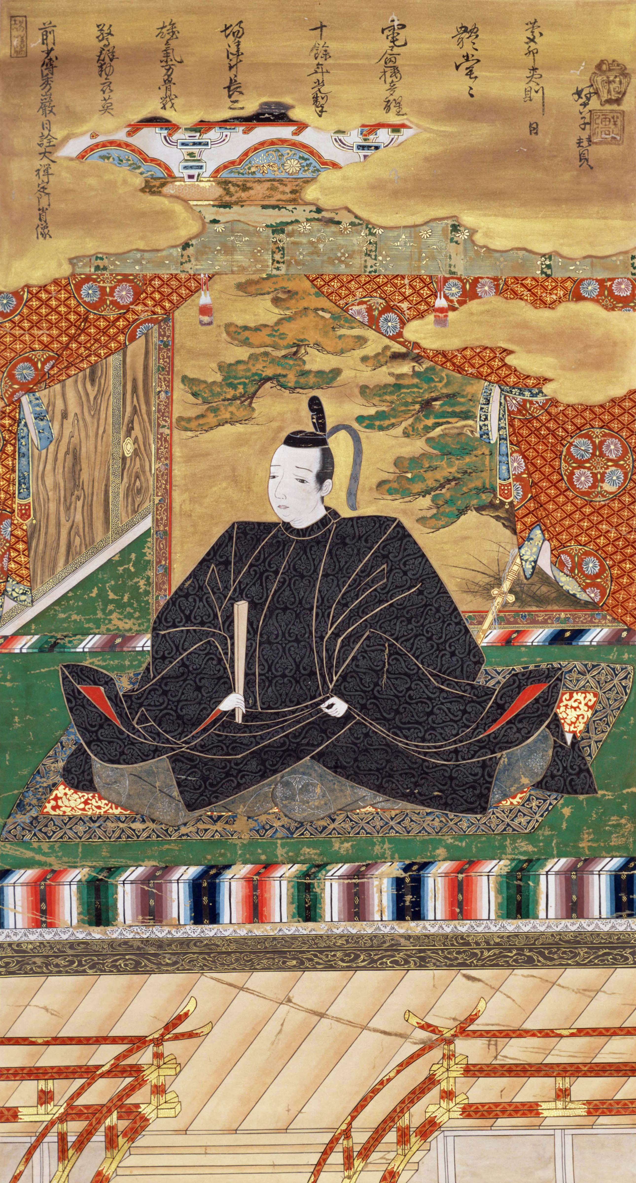 Hideaki Kobayakawa (copy), Koko Koko. Kodaiji Temple collection (Kyoto National Museum)